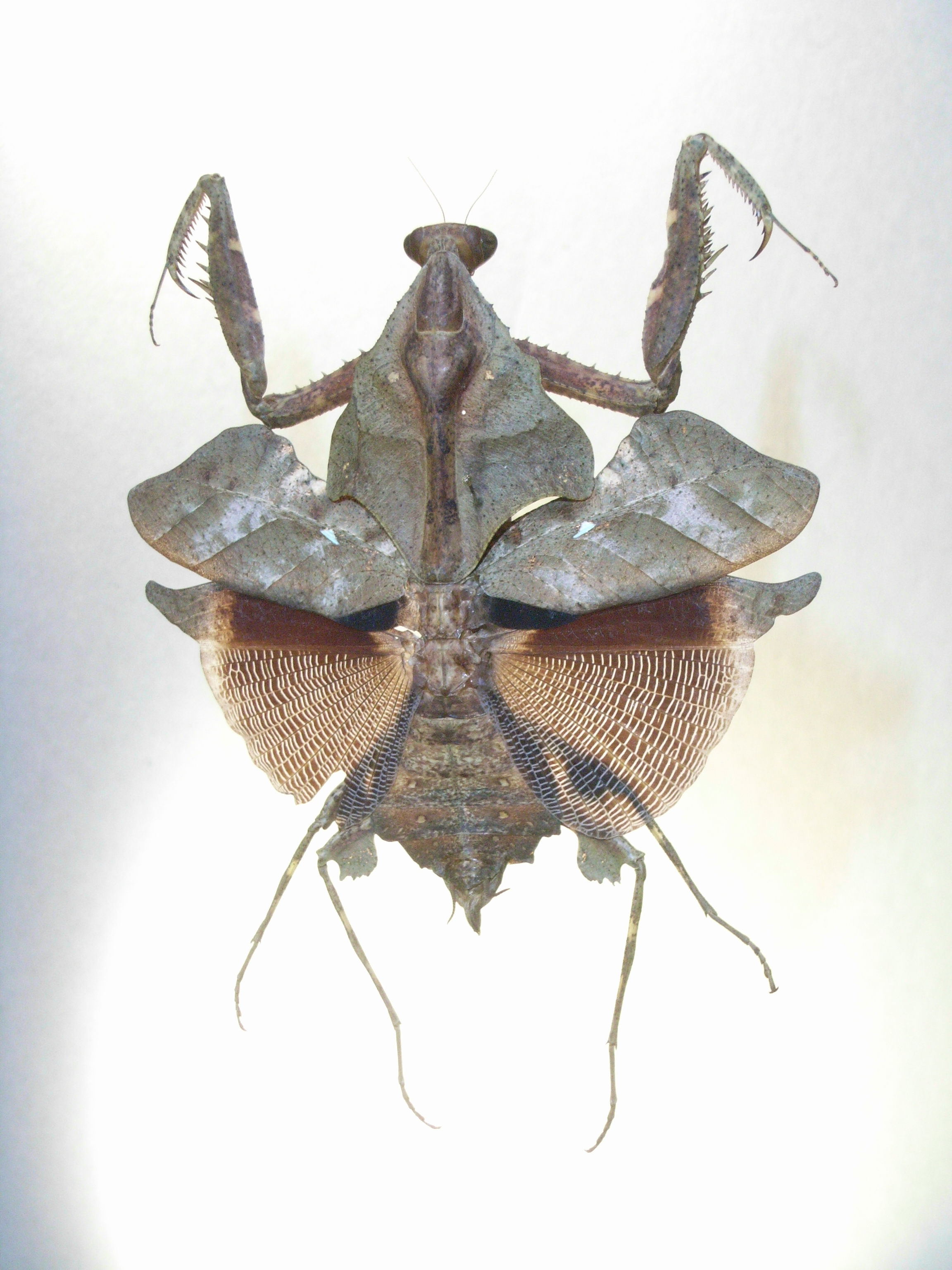 Deroplatys cf. truncata (misnamed file) Malayan Dead Leaf Mantis Ex coll. Felix Stumpe